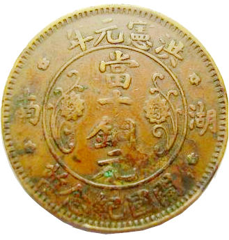 I re-design this picture from File:Empire of China-Hunan-10 cash coin.png